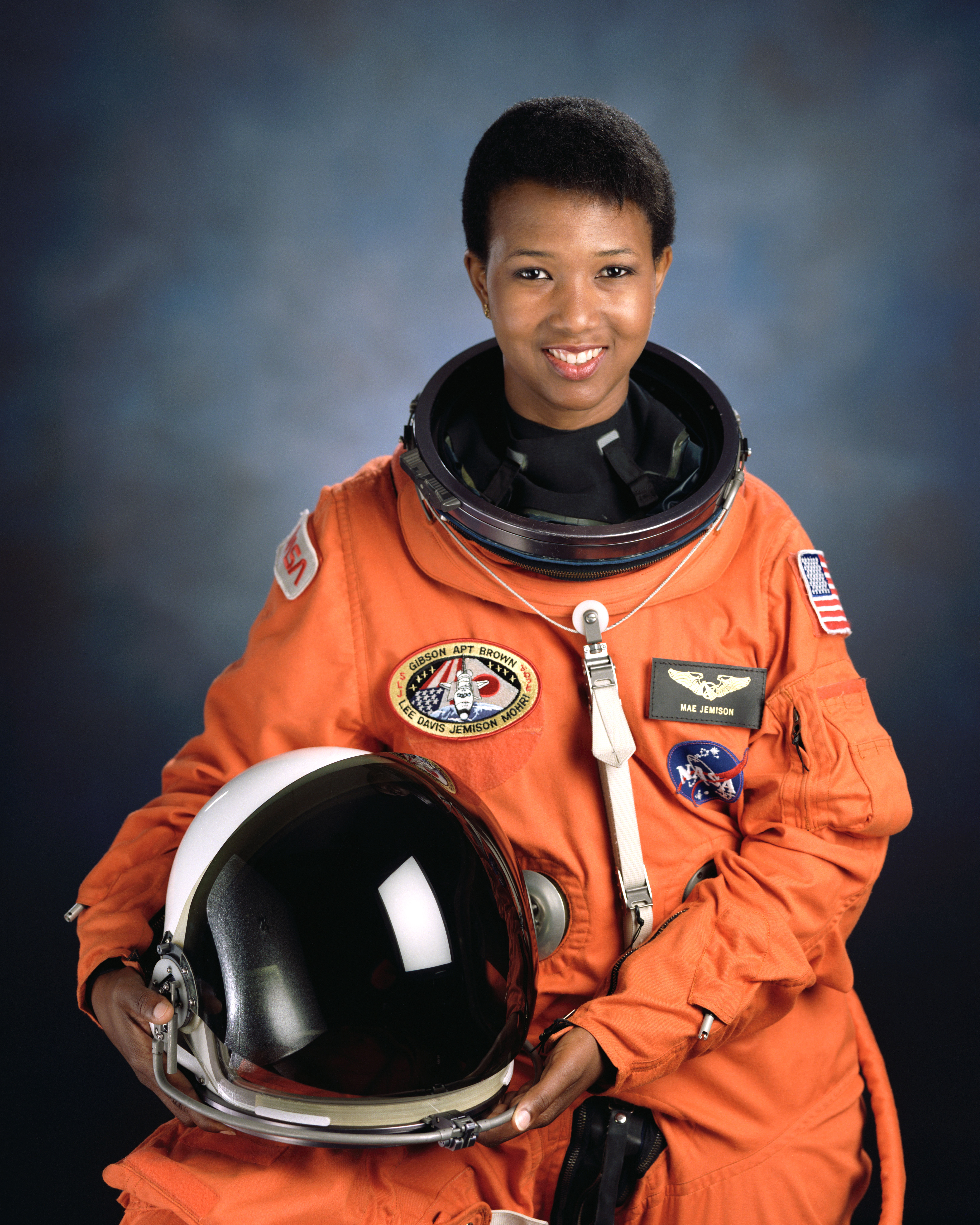 Mae Carol Jemison (born October 17, 1956) is an American engineer, physician and NASA astronaut. She became the first black woman to travel in space when she served as an astronaut aboard the Space Shuttle Endeavour.